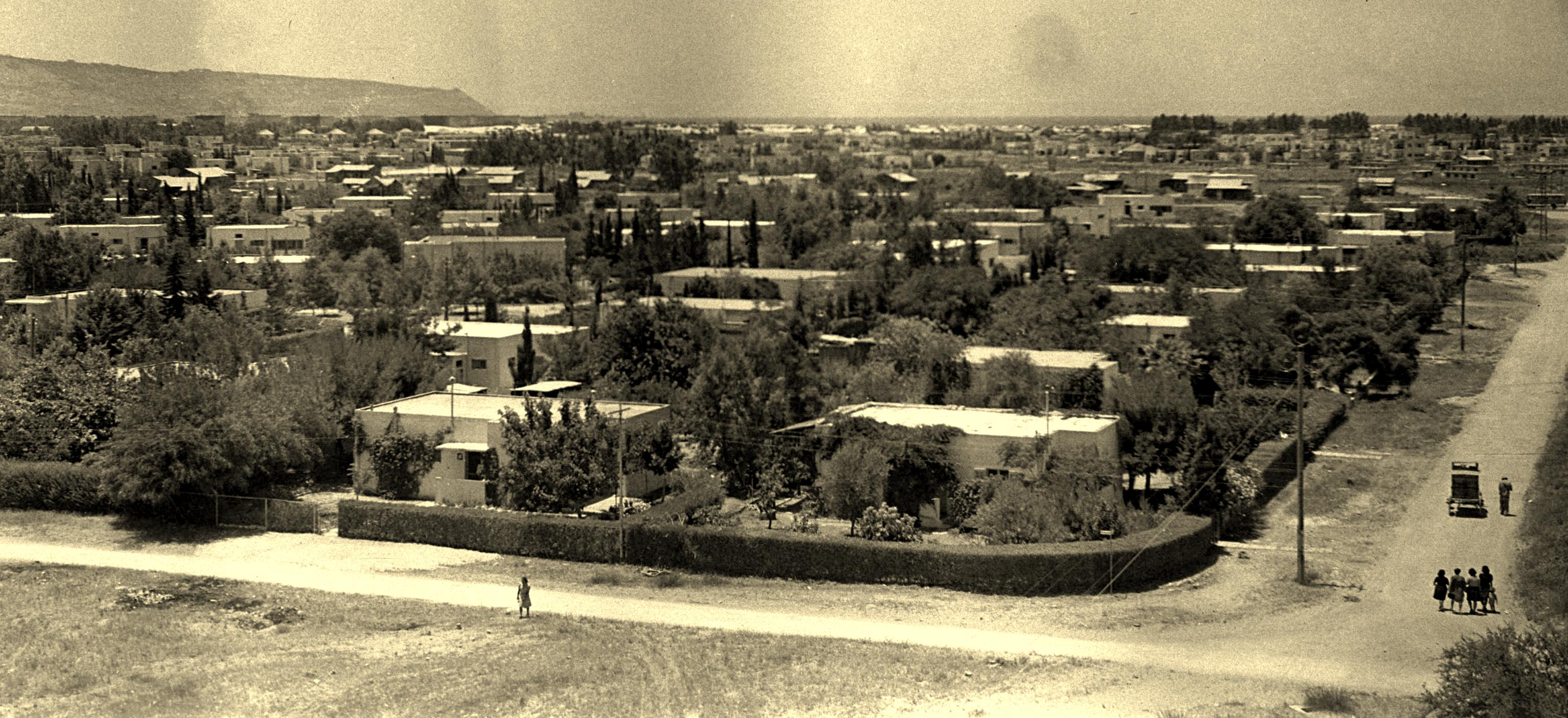 A view of Kityat Bialik